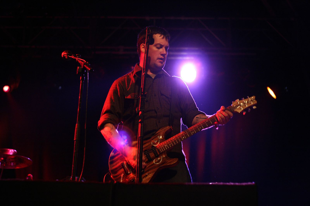 Isaac Brock